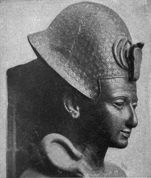 Ancient Egyptian art - 1400 B.C. to Roman - Ramses II (Granite)